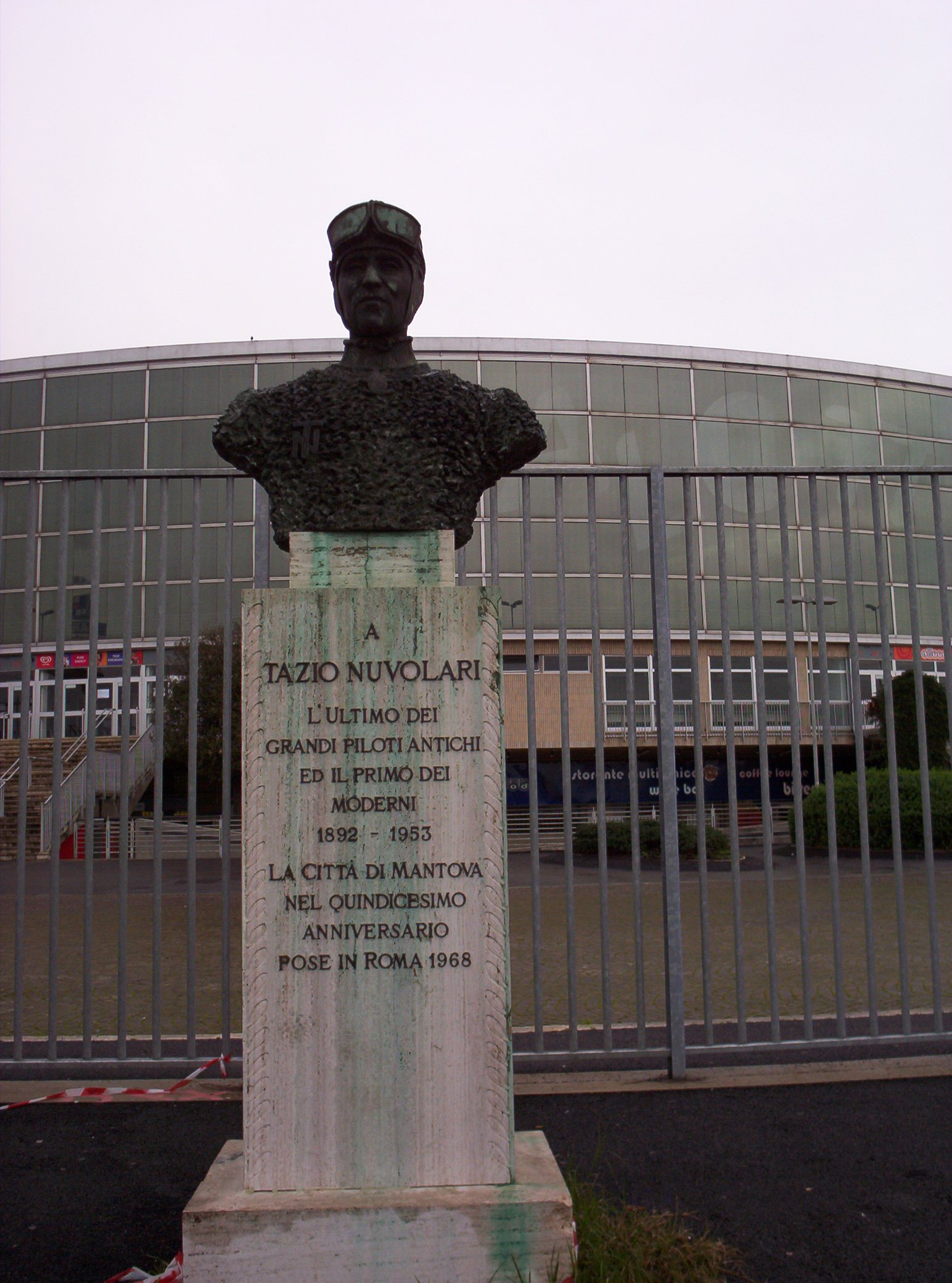 A photo of Tazio Nuvolari's bust in Rome.